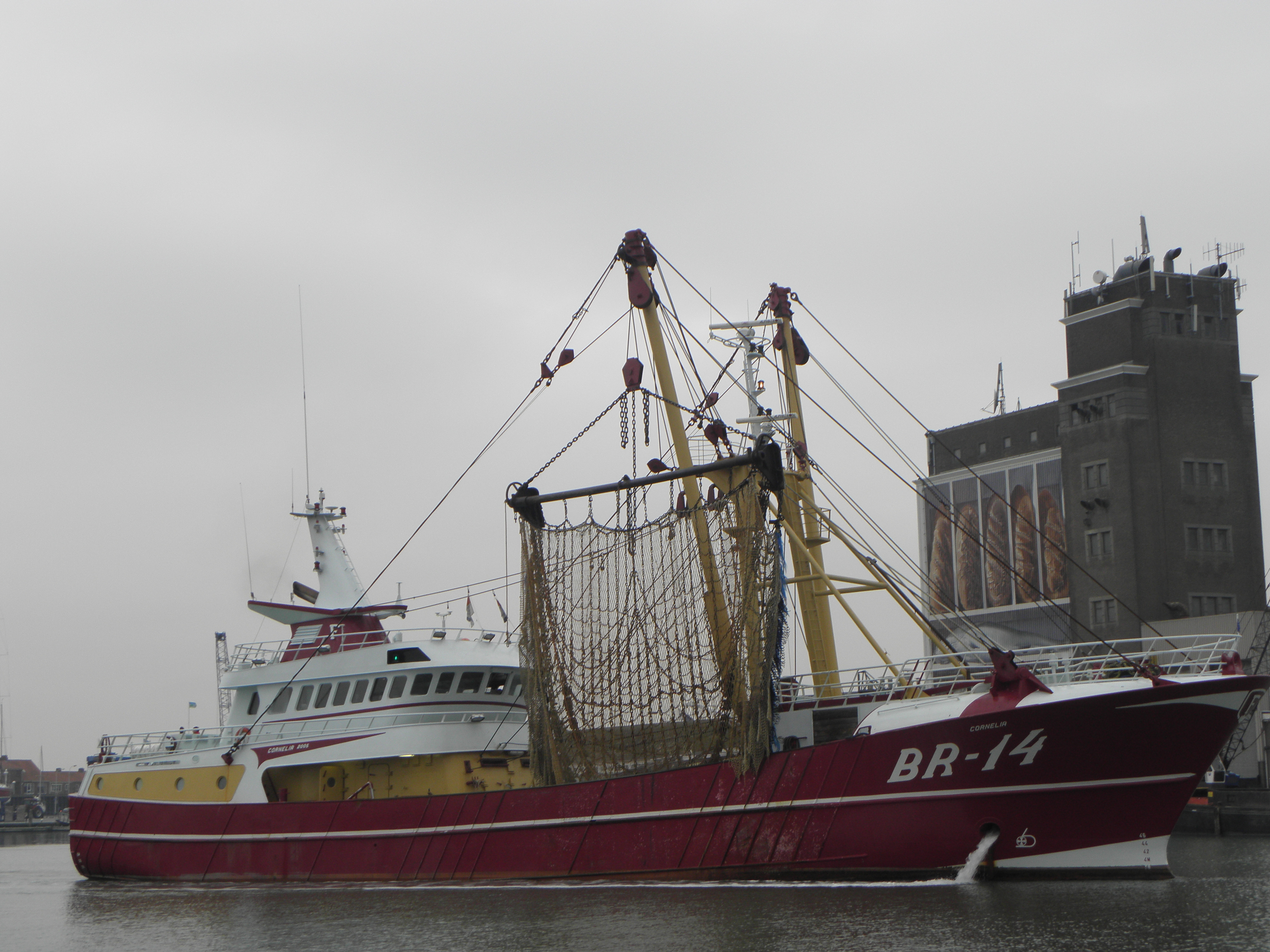 Fishing ship of the Netherlands Breskens14 Cornelia